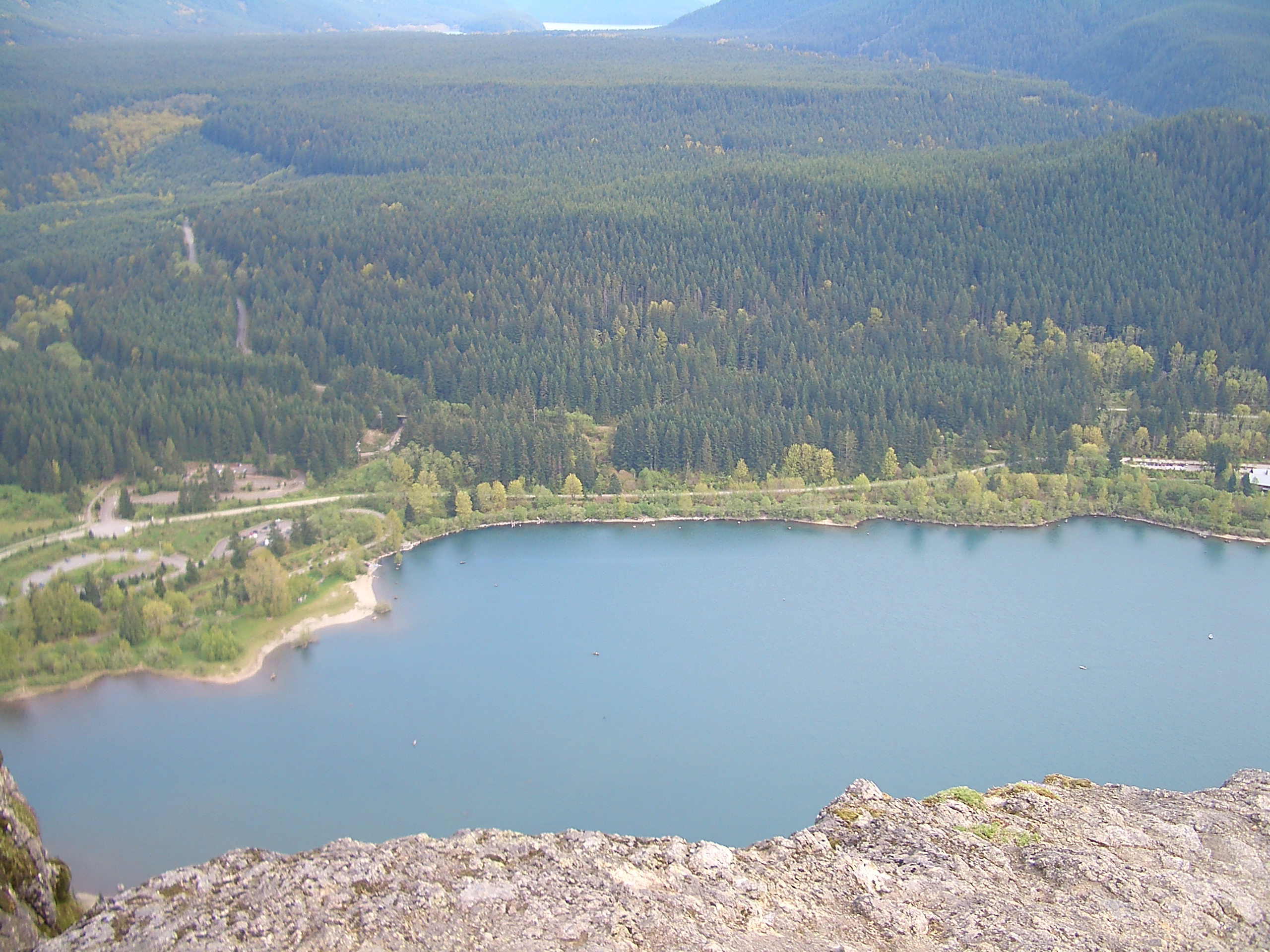 Rattlesnake Lake and mountains east of it seen from Rattlesnake Mountain (the Lower Ledge). Chester Morse Lake can be seen in the far background.